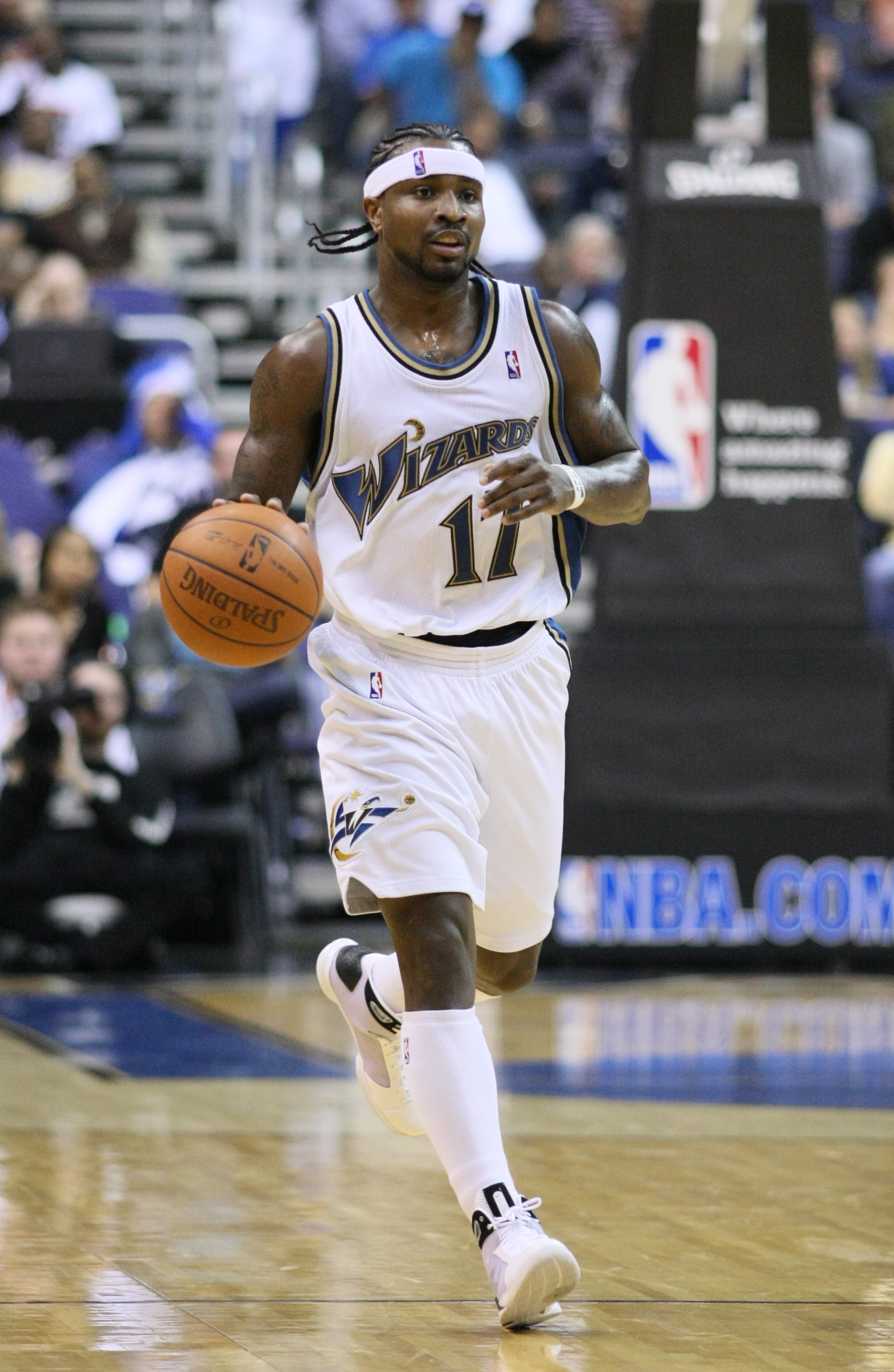 Dee Brown at the Washington Wizards v/s Orlando Magic game on 11/27/08